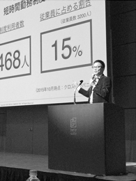 Yasuharu Ishikawa, President of Cross Inc., gave a lecture.